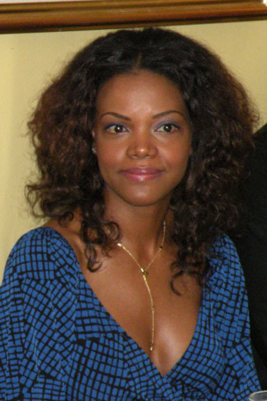 Actress Nadege August appearing at a press conference at the Kassava Caribbean Restaurant in Los Angeles in support of Haiti, a finalist in the World Challenge 09 competition.